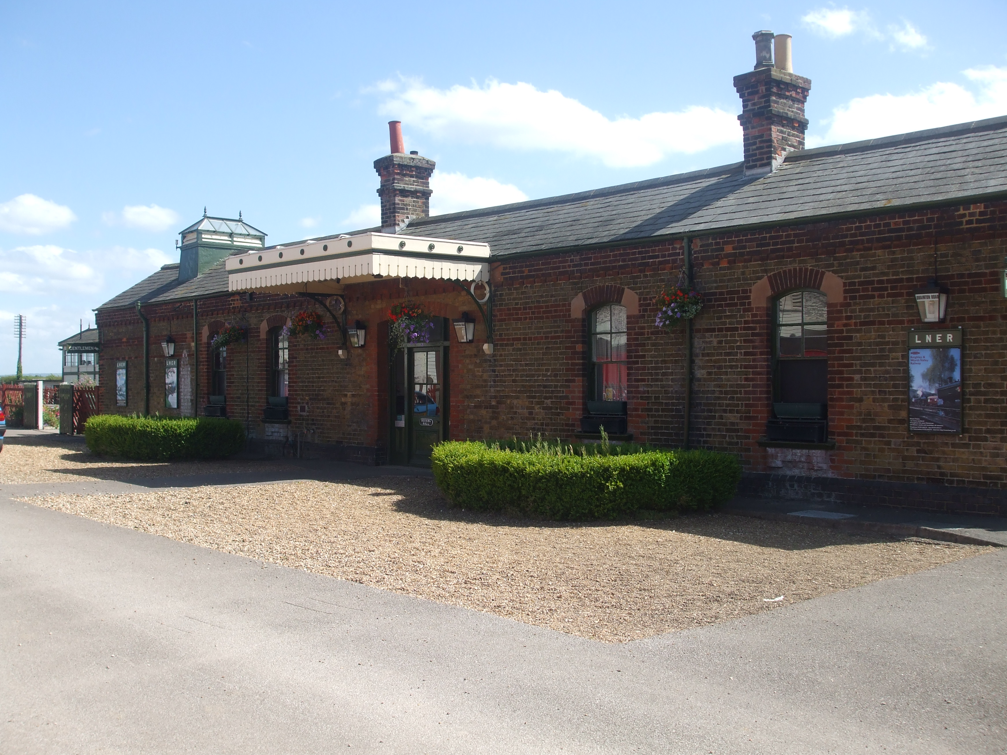 Quainton Road Railway Station, Buckinghamshire